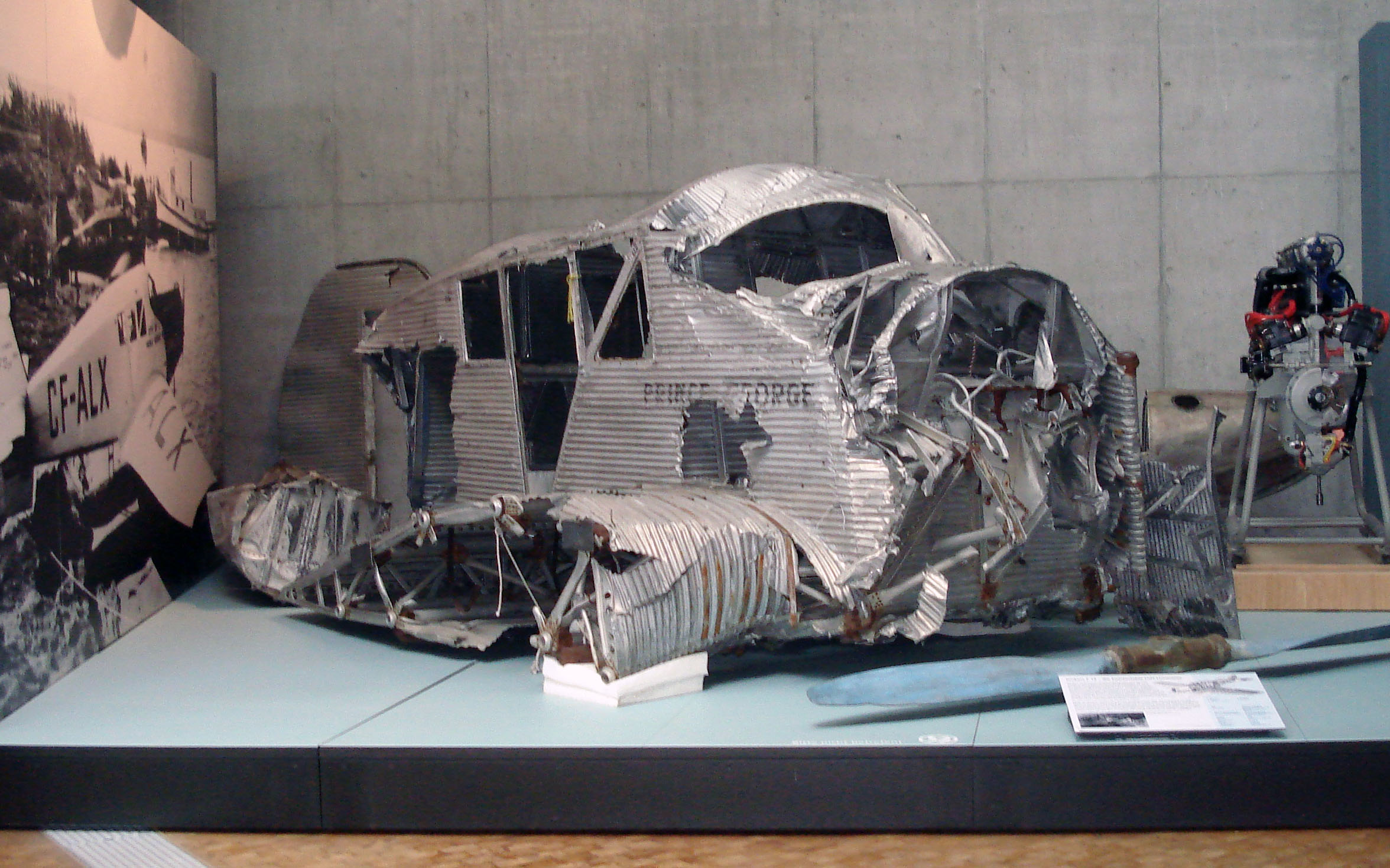 Wreck of an Junkers F 13 in the DTMB